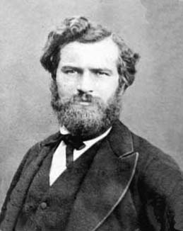 Camille Jordan, French mathematician